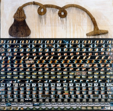 105 x 108 x 4 3/4 inches, mix-media on wood & metal studs